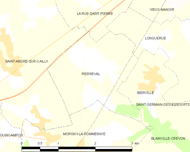 Map of French municipality Pierreval